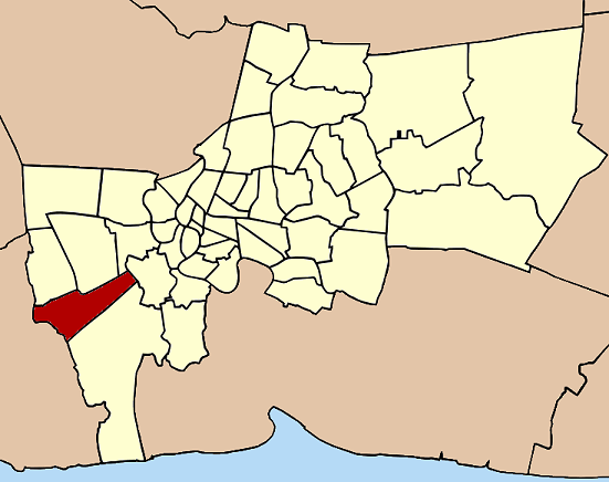 Map of Bangkok, Thailand, highlighting the district (khet) Bang Bon (บางบอน)